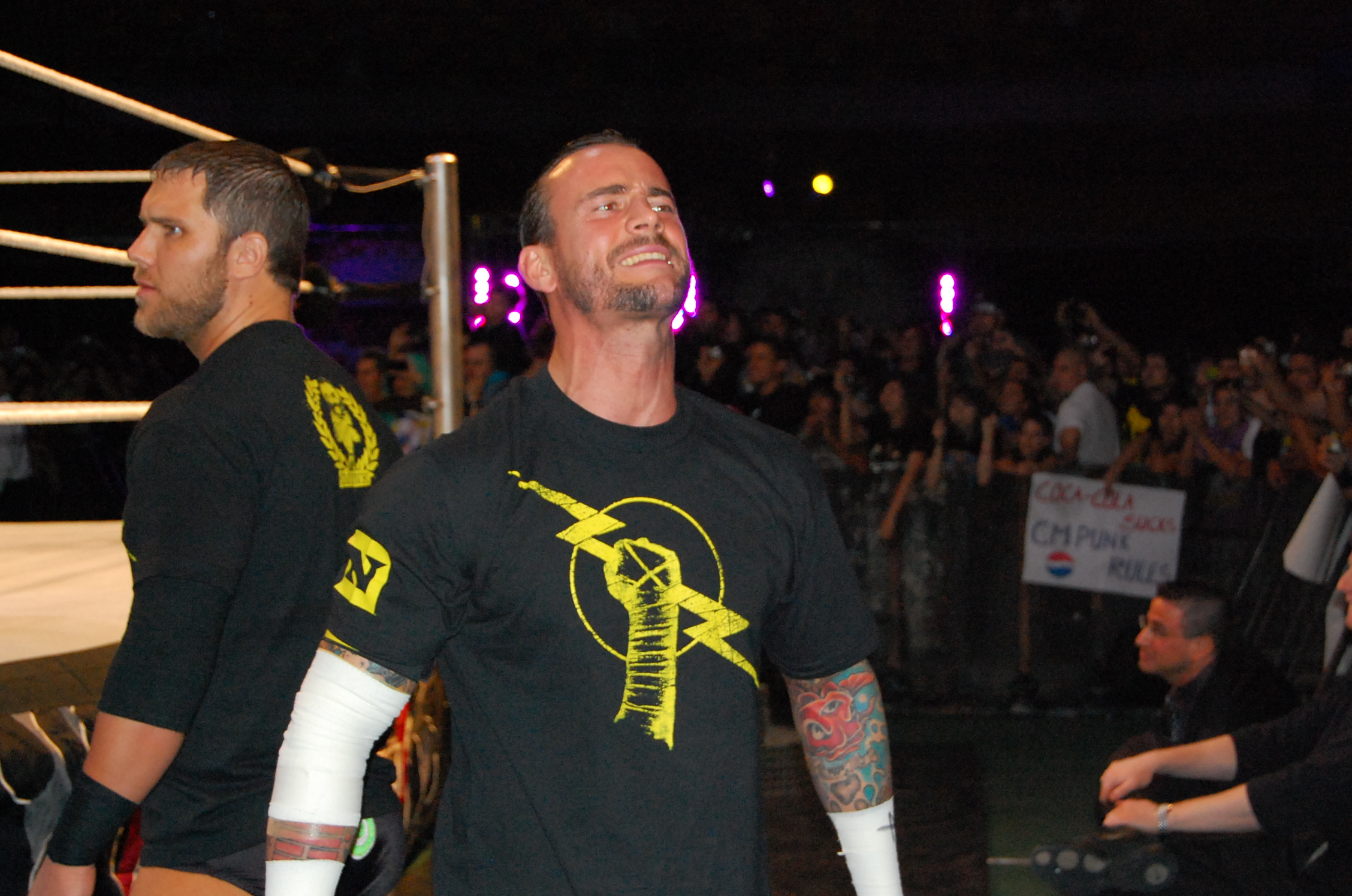 CM Punk as the leader of The Nexus in February 2011. Michael McGillicutty (Joe Hennig) is visible to the left of the photo.